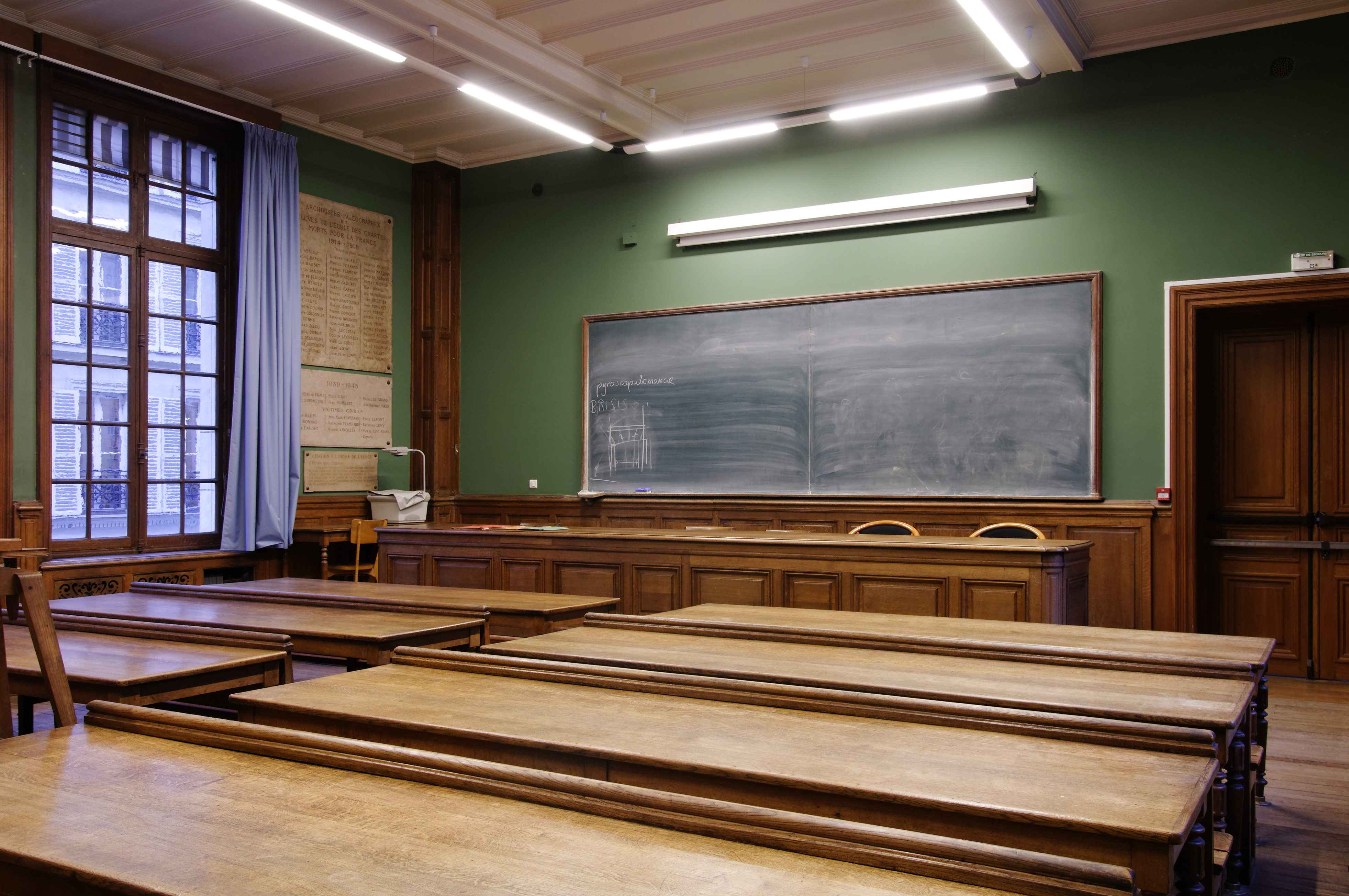 Main room of the École nationale des chartes, Paris.